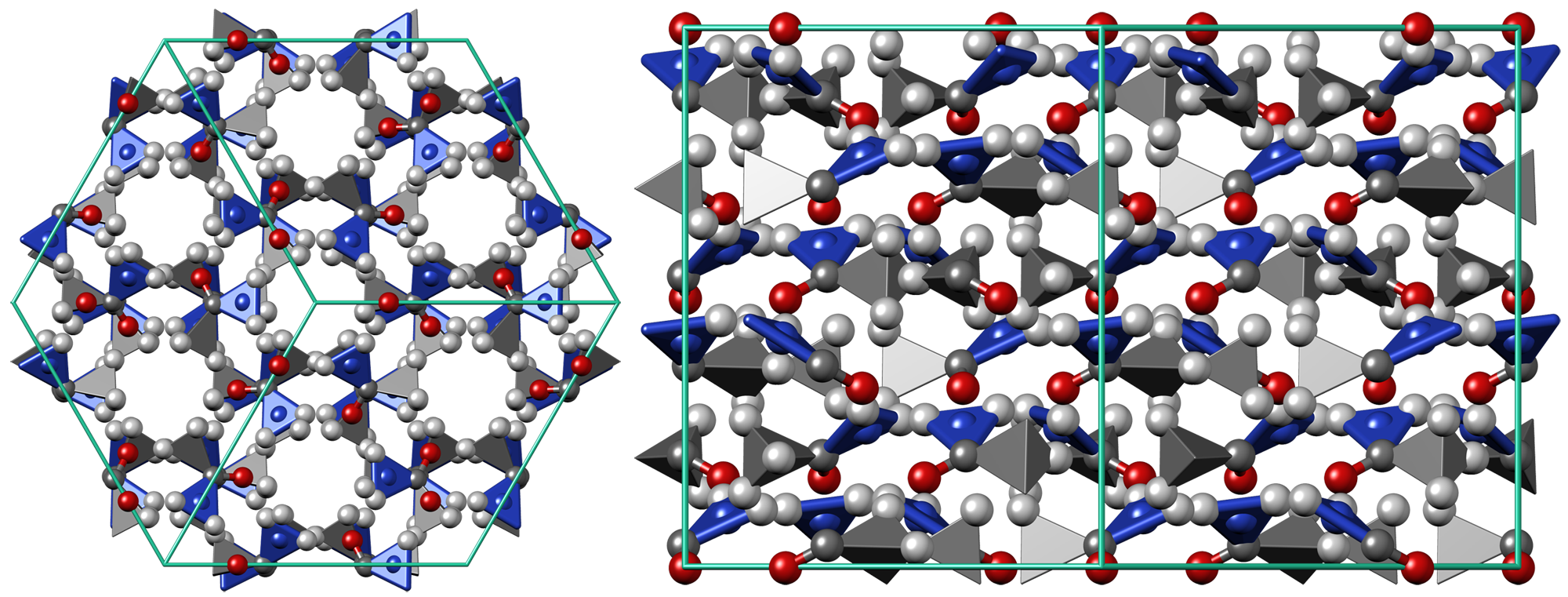 Crystal structure of acetamide - CH3CONH2. Jeffrey G A, Ruble J R, McMullan R K, DeFrees D J, Binkley J S, Pople J A Colour code: Carbon, C: grey Nitrogen, N: blue Hydrogen, H: white Oxygen, O: red Cell: blue-green